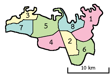 Subdistricts of Changhan